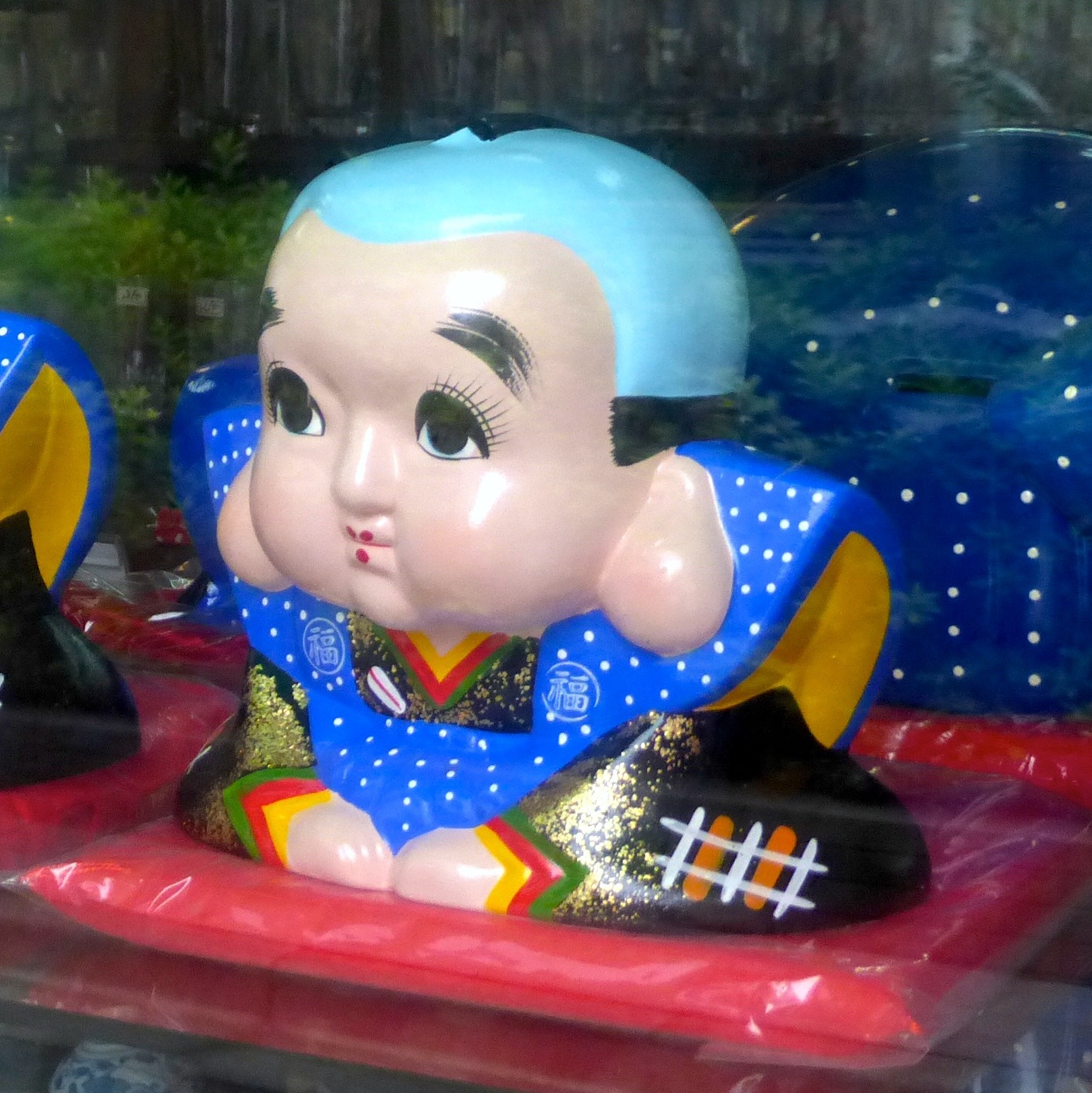 Fukusuke (福助) are traditional china dolls associated with good luck in Japan.